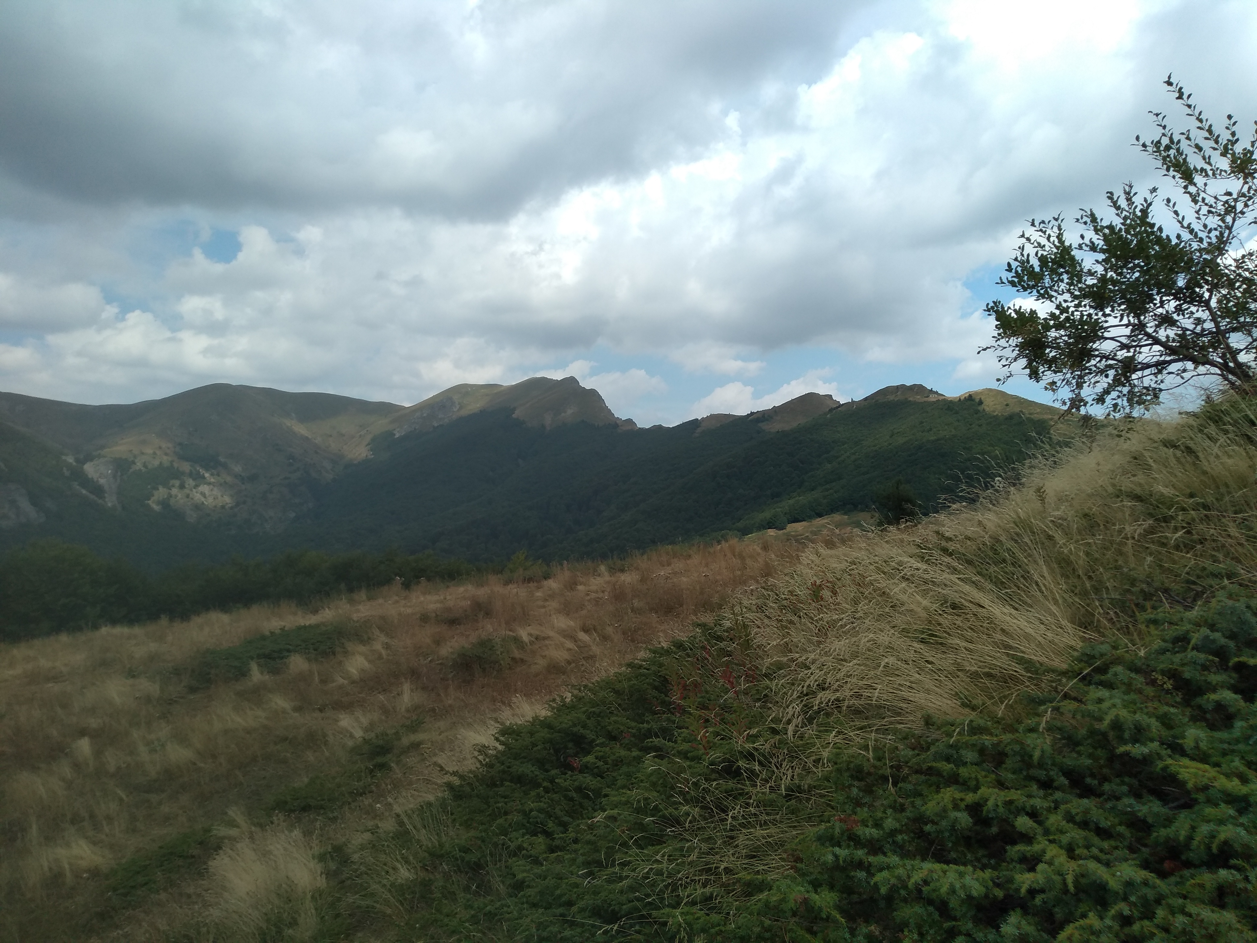 Porta peak on Kožuf mountain, Macedonia